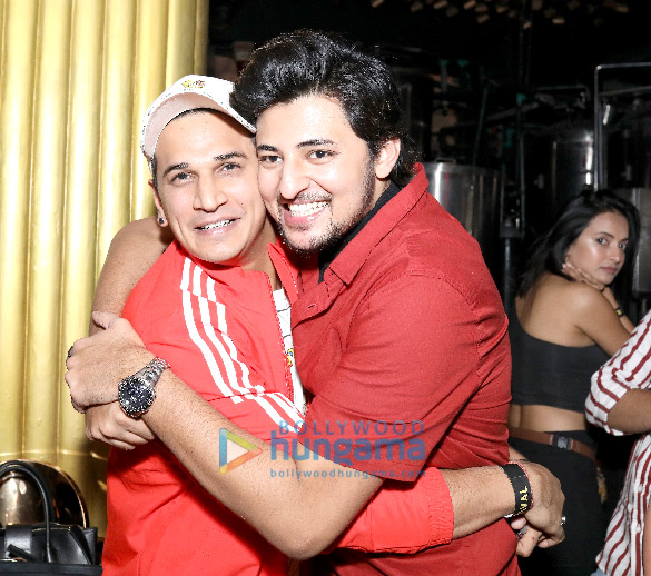 The success bash of Darshan Raval’s latest songs